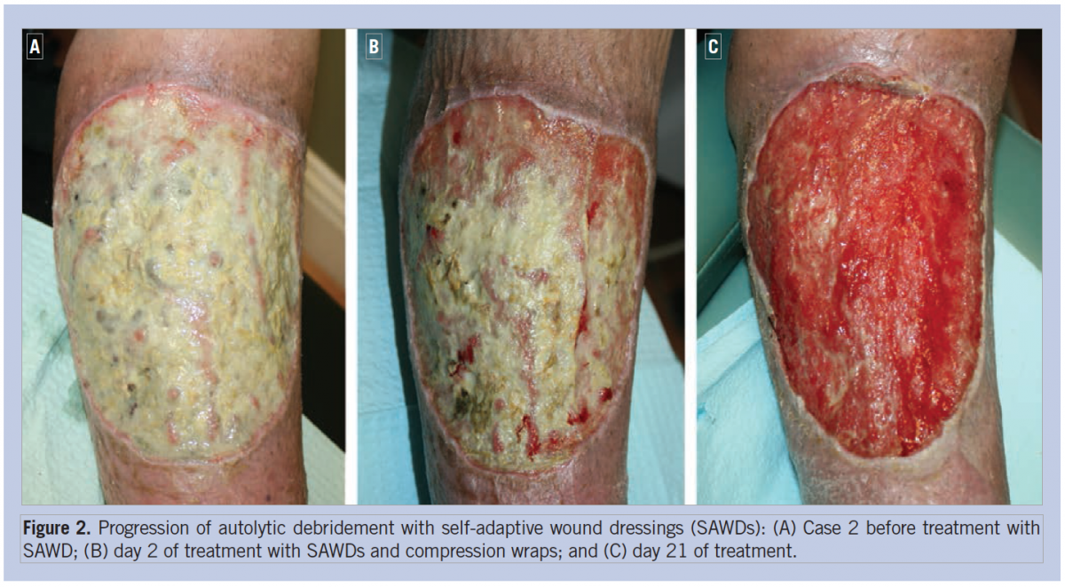 self-adaptive wound dressings